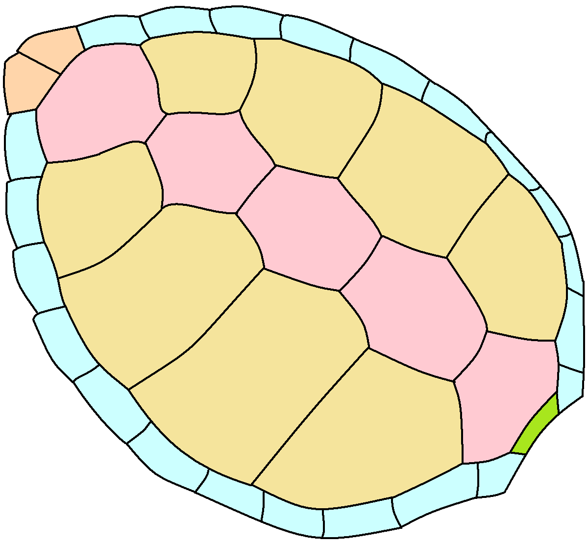 Green Turtle seen from a glasbottom boat at John Pennekamp Coral Reef State Park, Key Largo, Florida